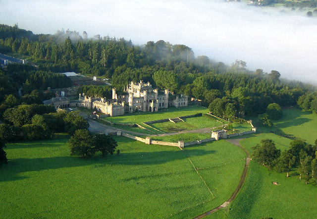 Lowther Castle, Cumbria